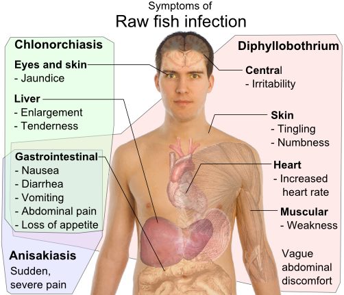 Parasite infection by raw fish is rare (less than 40[1] cases per year in the U.S.), but involves mainly three kinds of parasites: Clonorchis sinensis (a trematode/fluke), Anisakis (a nematode/roundworm) and Diphyllobothrium a (cestode/tapeworm),[1] all with gastrointestinal, but otherwise distinct, symptoms. [2] [3] [4] [5] Model: Mikael Häggström. To discuss image, please see Template talk:Häggström diagrams